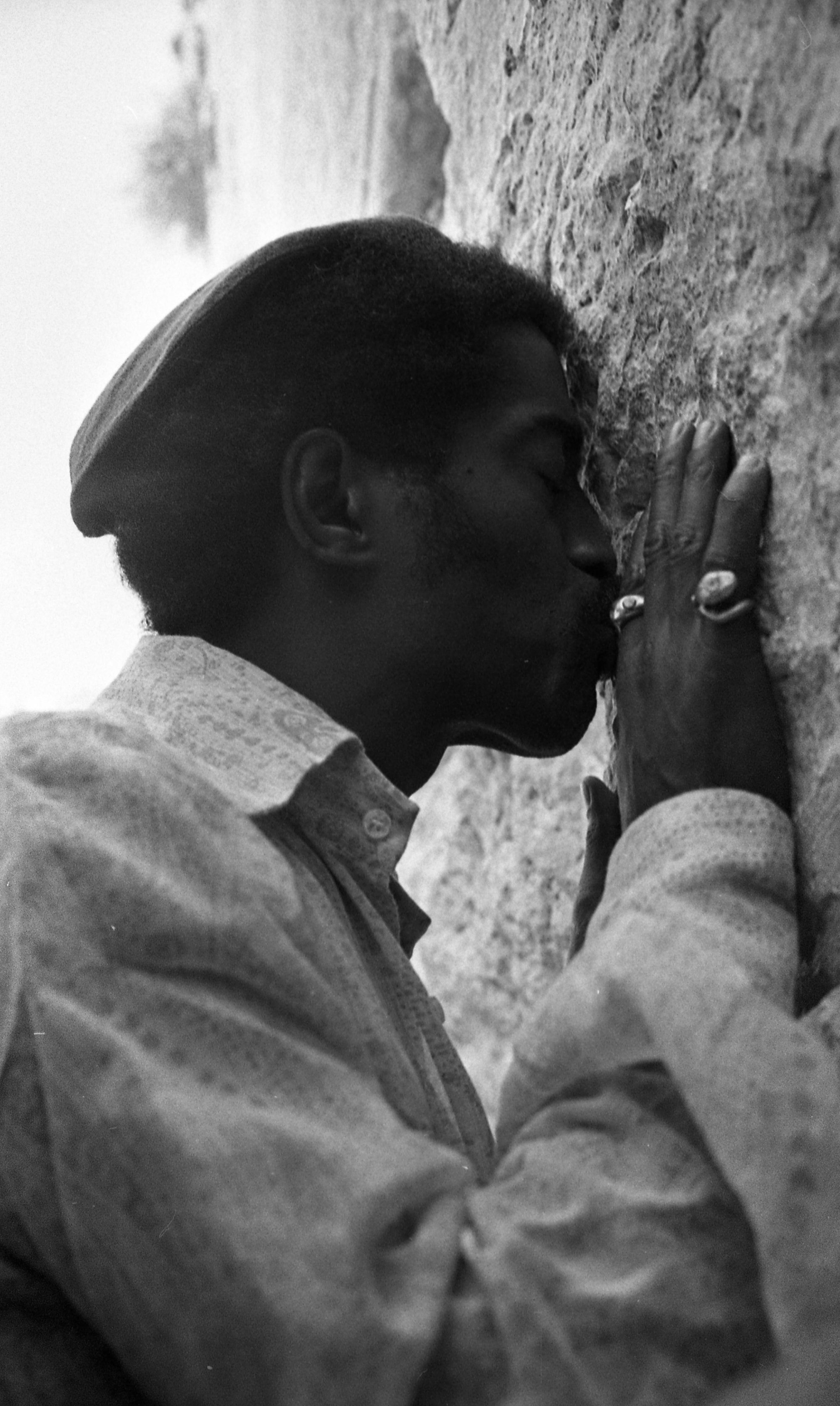 American entertainer Sammy Davis Jr. said the highlight of his whirlwind tour of Israel was a visit to the Western Wall.